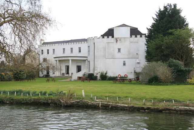 Bray Film Studios Home of Hammer House of Horror.